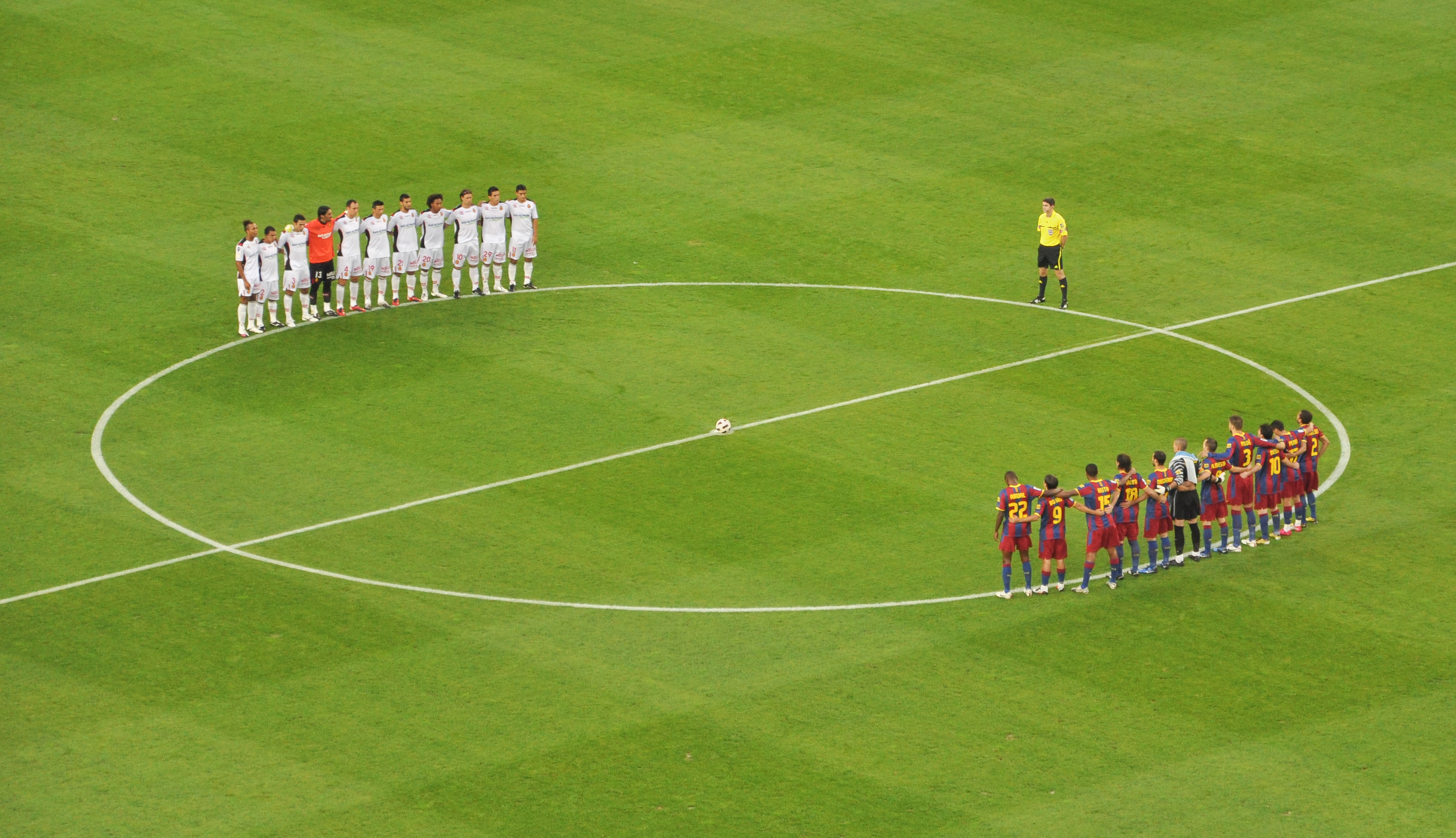 The pre-match in spanish Liga BBVA's 2010-2011 season, 6th round encounter between Barcelona FC and Real Club Deportivo Mallorca (disputed at night on October 3rd 2010 at the Camp Nou stadium). Match ended 1-1 with goals of Emilio Nsue for Mallorca and Lionel Messi for Barcelona. Messi also showed off his newly awarded Golden Boot for his goal tally in 2009-10 season, before the match start.